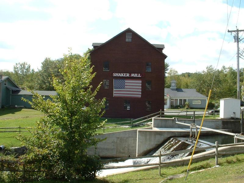 The Shaker Mill at Shaker Pond, West Stockbridge, Ma. Corner of Depot St & Albany Rd, West Stockbridge, MA